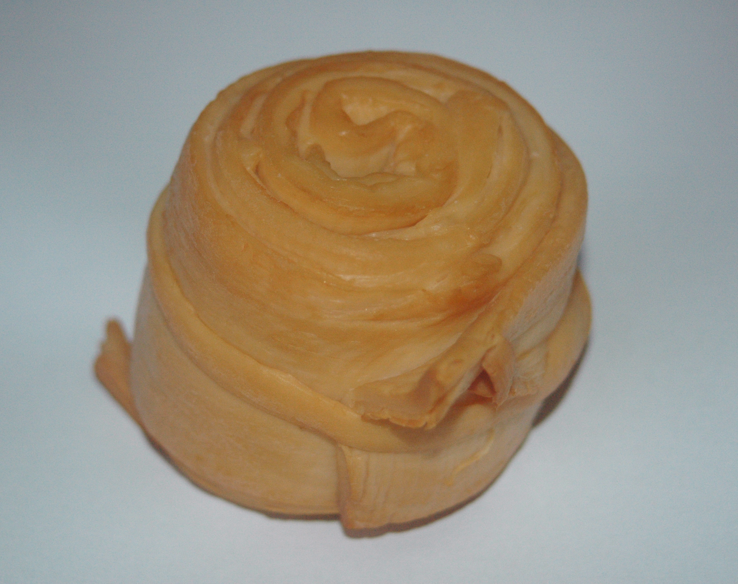 Slovak parenica from Liptov